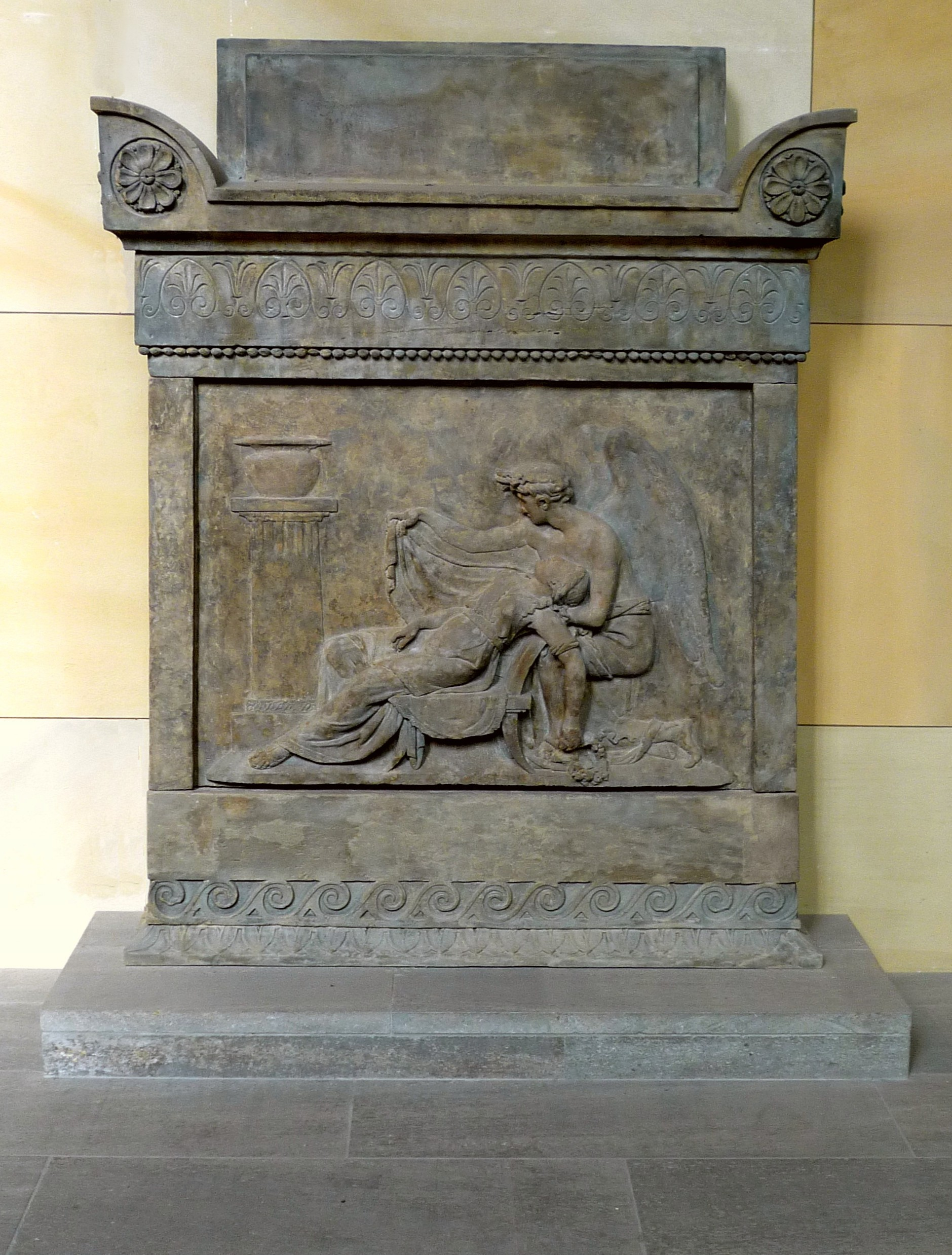 Tomb by Hans Christian Genelli for countess Julie von Voss (1766-1789), left-handed wife of king Friedrich Wilhelm II. of Prussia.